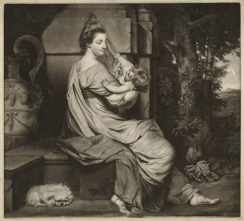 Harriet Bouverie (née Fawkener, later Lady Robert Spencer); Edward Bouverie. Sold by James Watson, sold by Butler Clowes, after Sir Joshua Reynolds mezzotint, published 30 September 1770 (1767-1769) 18 7/8 in. x 20 3/4 in. (479 mm x 527 mm) paper size